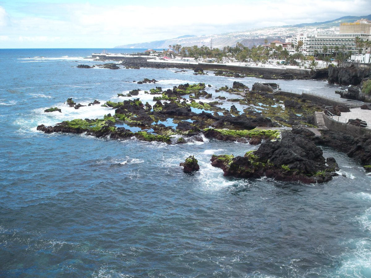 Paseo marítimo de San Telmo en el Puerto de la Cruz